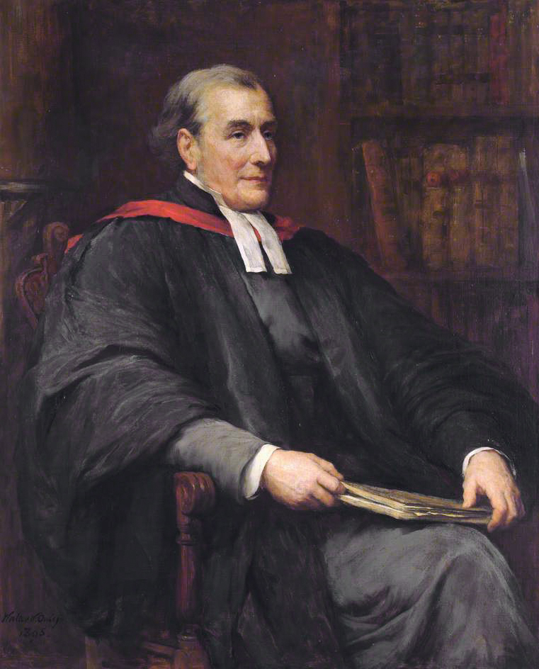 Charles John Vaughan (1816–1897), Fellow and Classical Scholar, Headmaster and Dean of Llandaff oil on canvas, 126 x 100 cm 1895